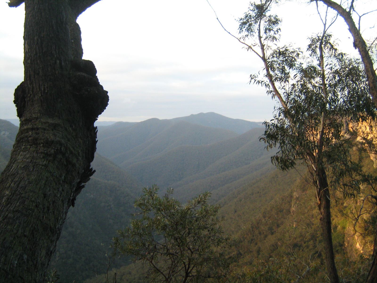 Mount Cloudmaker, Kanangra Boyd National Park, NSW, Australia.